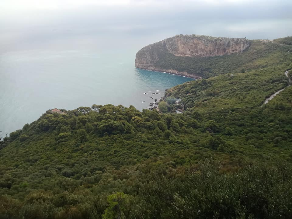 This is an image with the theme "Africa on the Move or Transport" from: Algeria